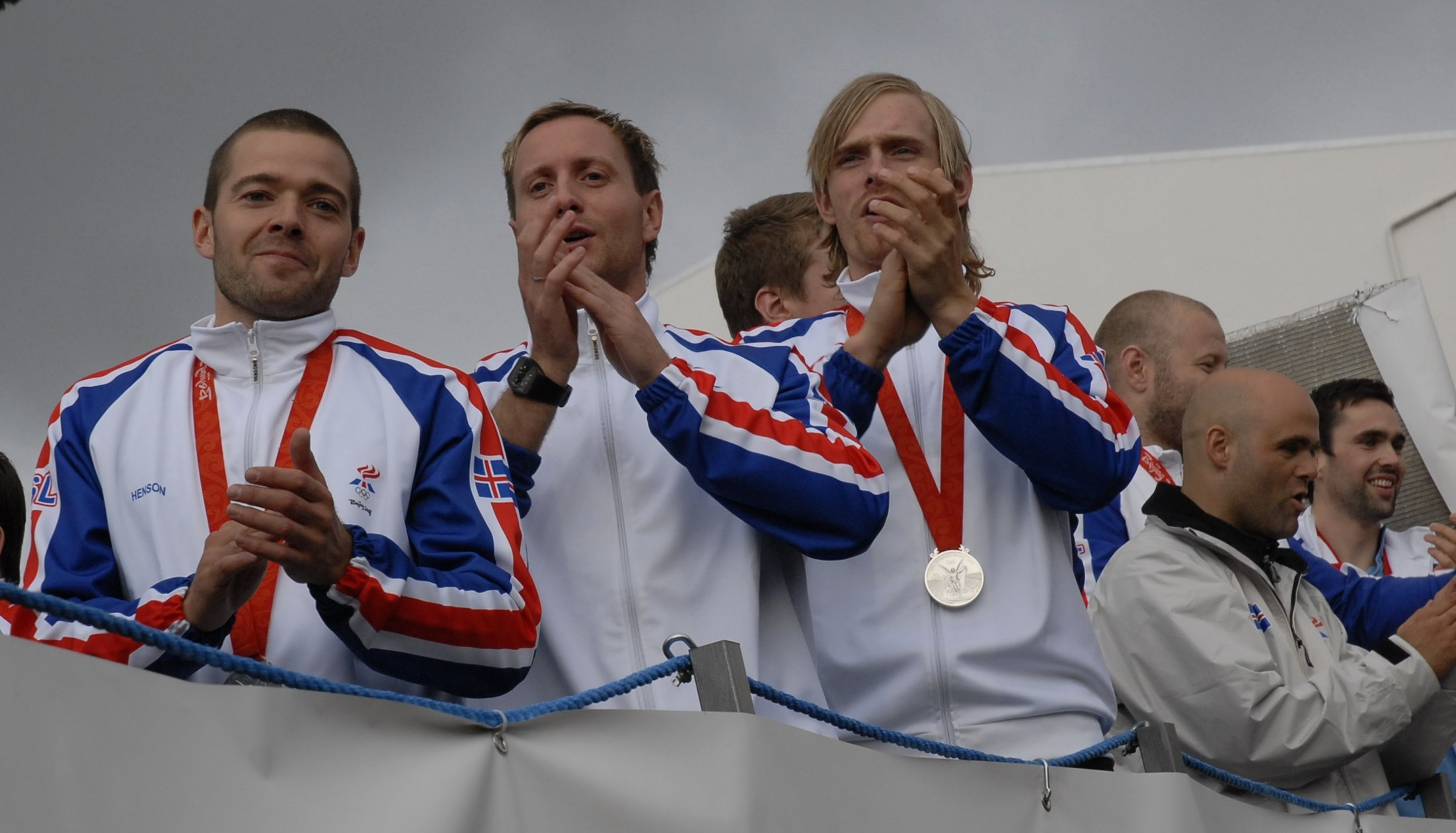 They won the silver, and the country was ecstatic. This is part of the team, during the homecoming parade. It was the 4th Olympic medal ever for Iceland.